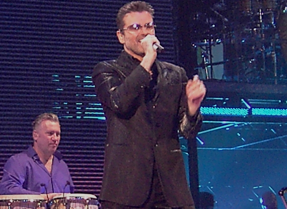 George Michael performing at the Olympiahalle arena (Munich, Germany) in 2006, for the 25 Live tour.